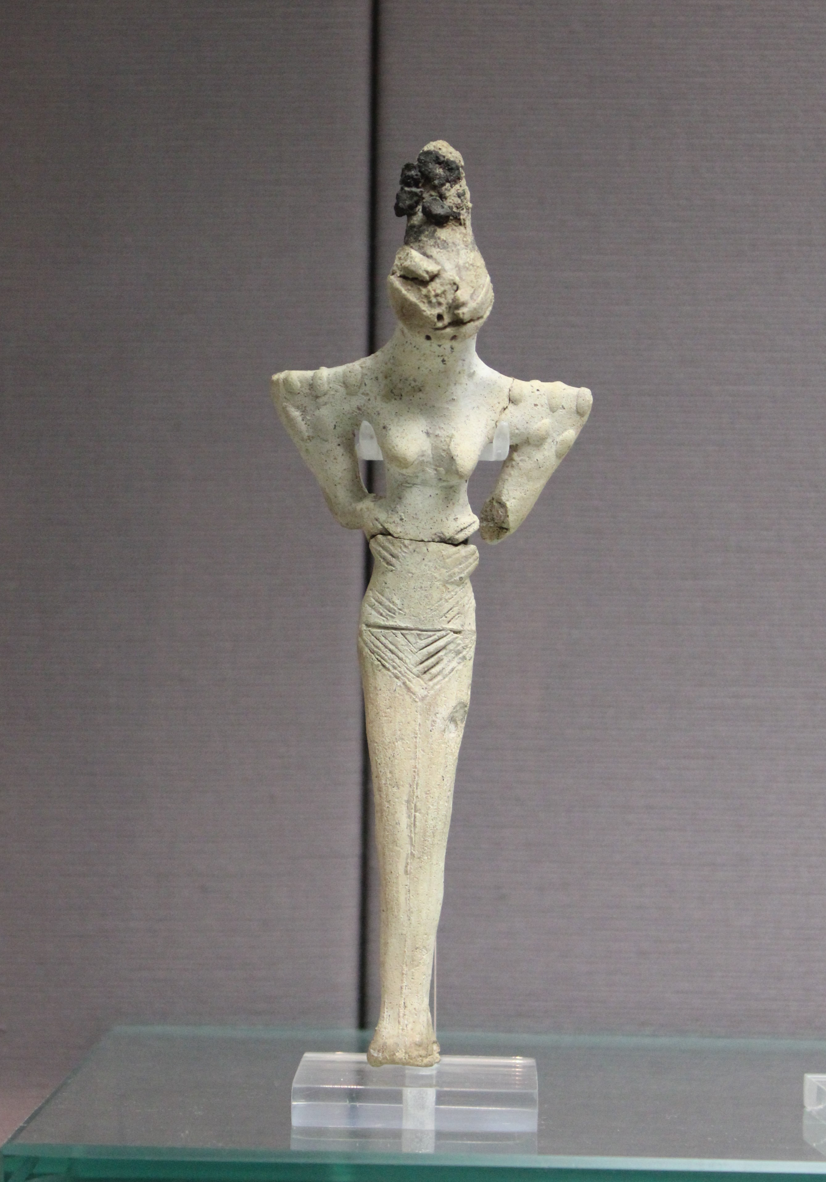 Female clay figurine. Probably made for ritual purposes. Ur, Ubaid Period (c. 5200-4200 BC). ME 122872.